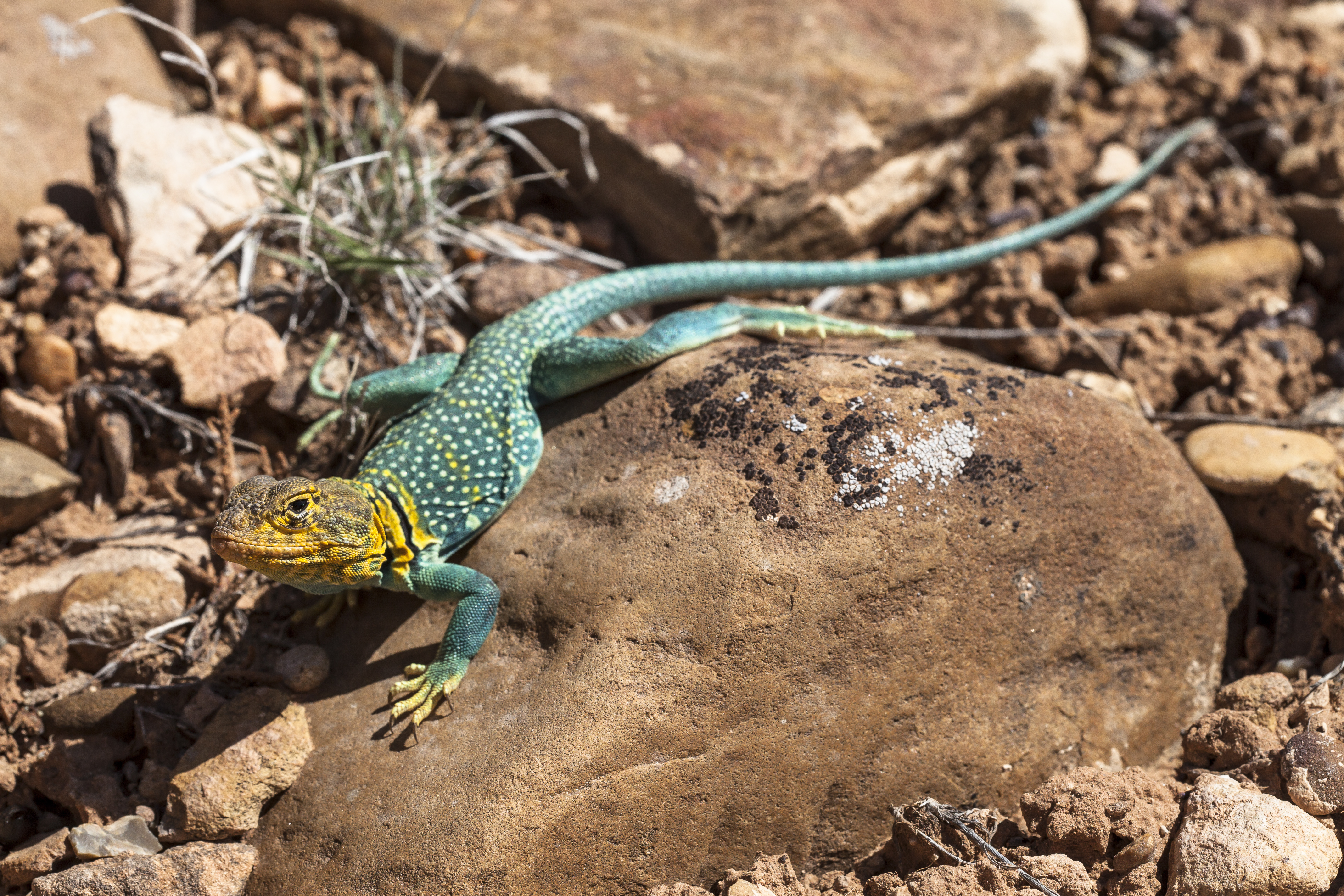 (NPS photo by Jacob W. Frank)